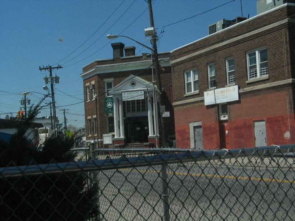 ON the intersection of two streets in Far Rockaway